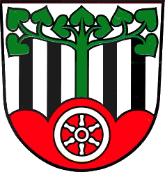 Coat of arms of Neustadt